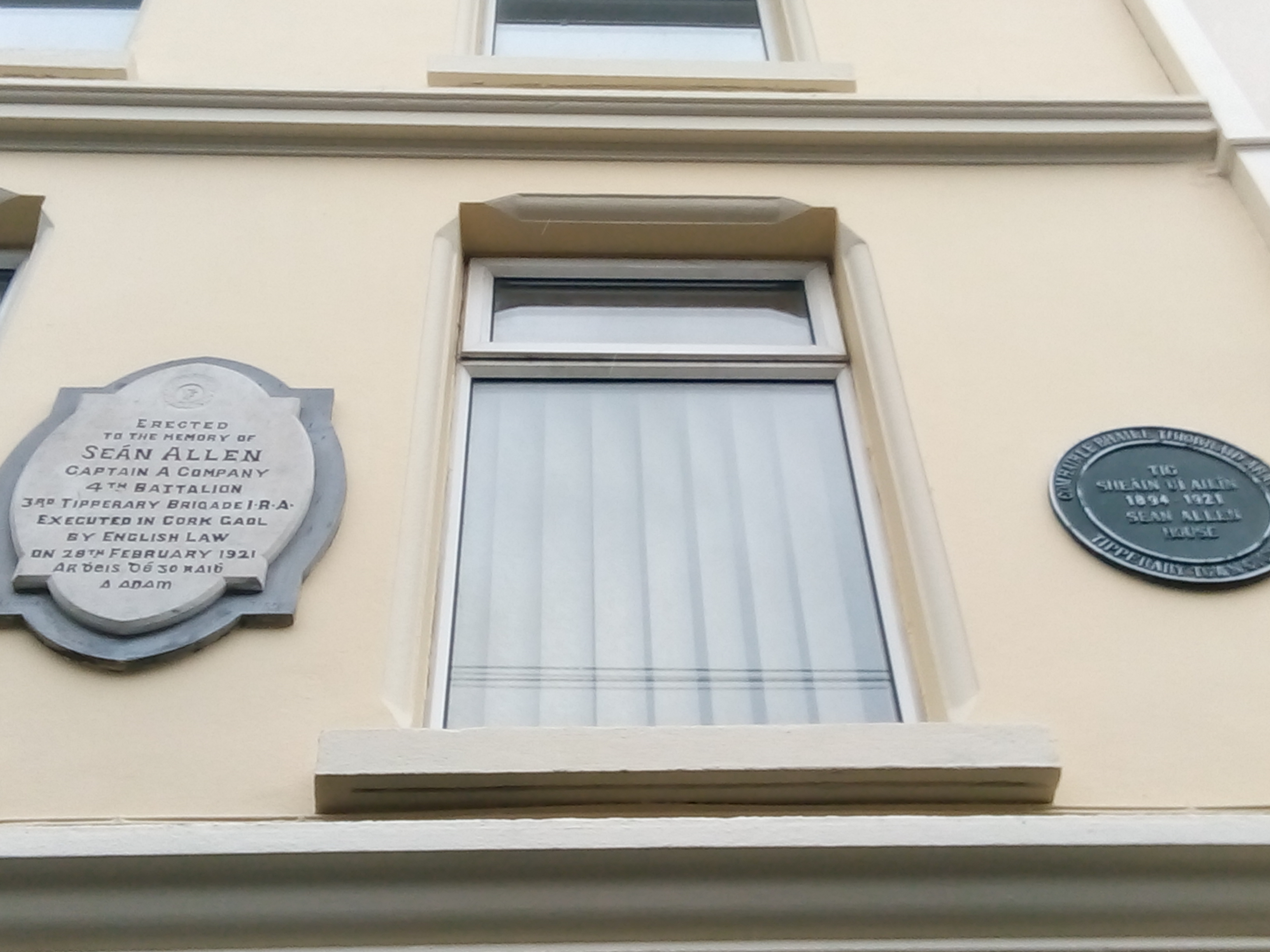 Sean Allen house, Tipp